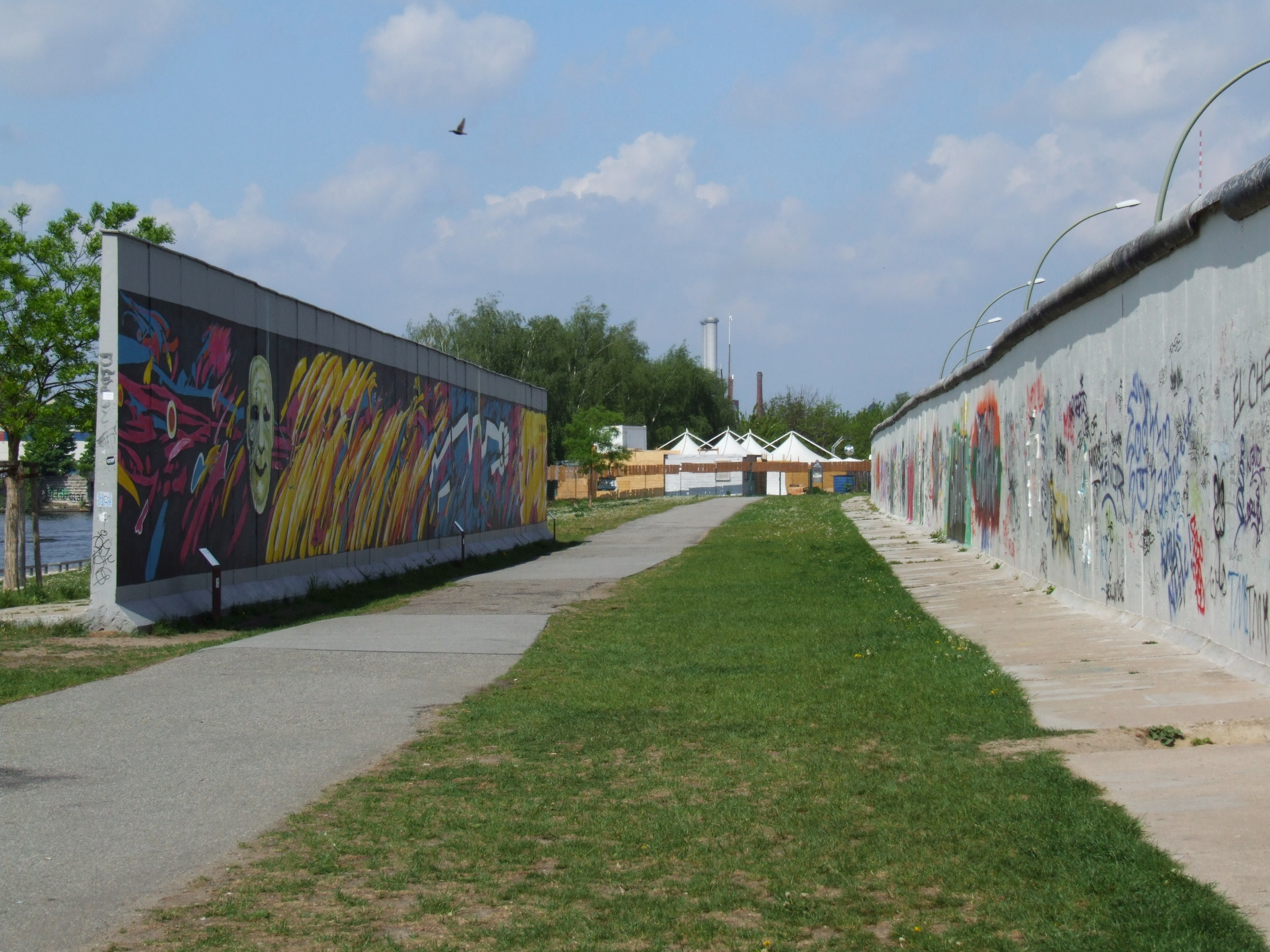 Berlin Wall near East Side Gallery